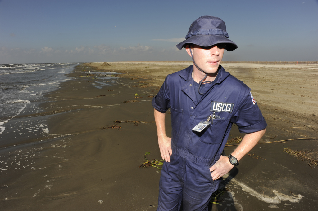 Petty Officer 1st Class Gabriel Hall, stationed at the prevention department of Coast Guard Sector Los Angeles - Long Beach, conducts a shoreline assessment on Grand Terre Two looking for any signs of oil product as part of the Deepwater Horizon response. U.S. Coast Guard photo by Petty Officer 2nd Class Matthew Schofield.